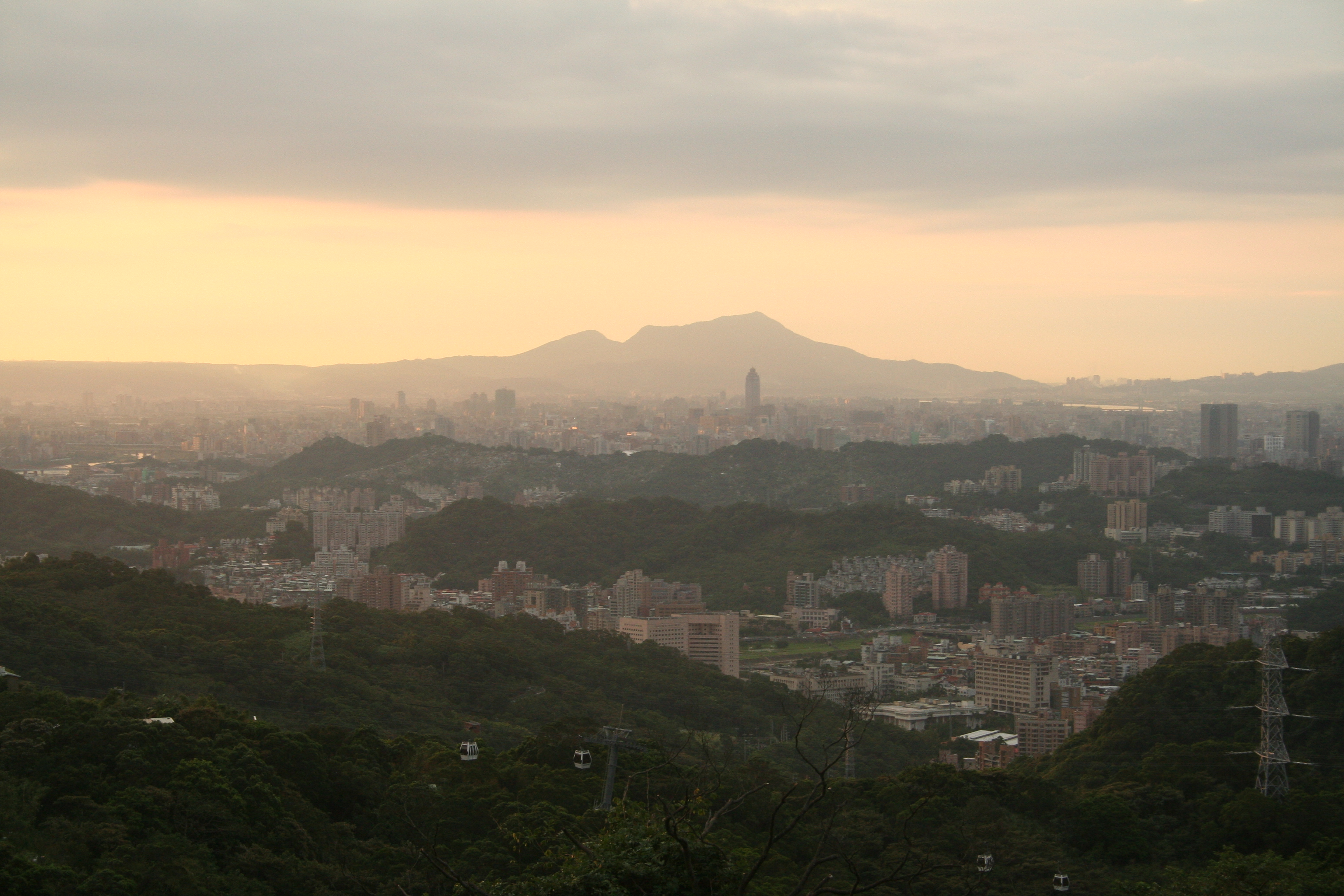 Taipei View From Maokong.